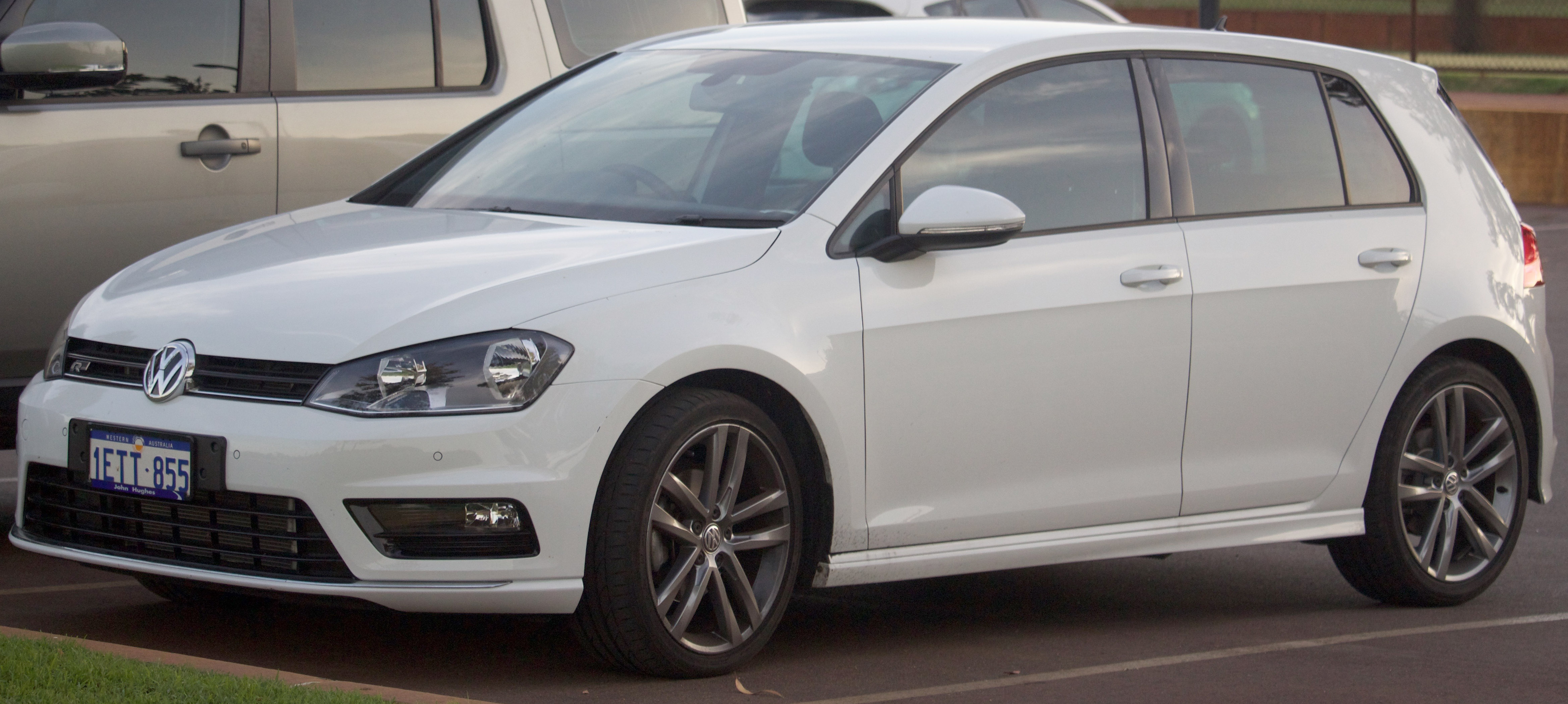 2015 Volkswagen Golf (5G) 103TSI R-Line 5-door hatchback. Photographed in Swanbourne, Western Australia Australia.